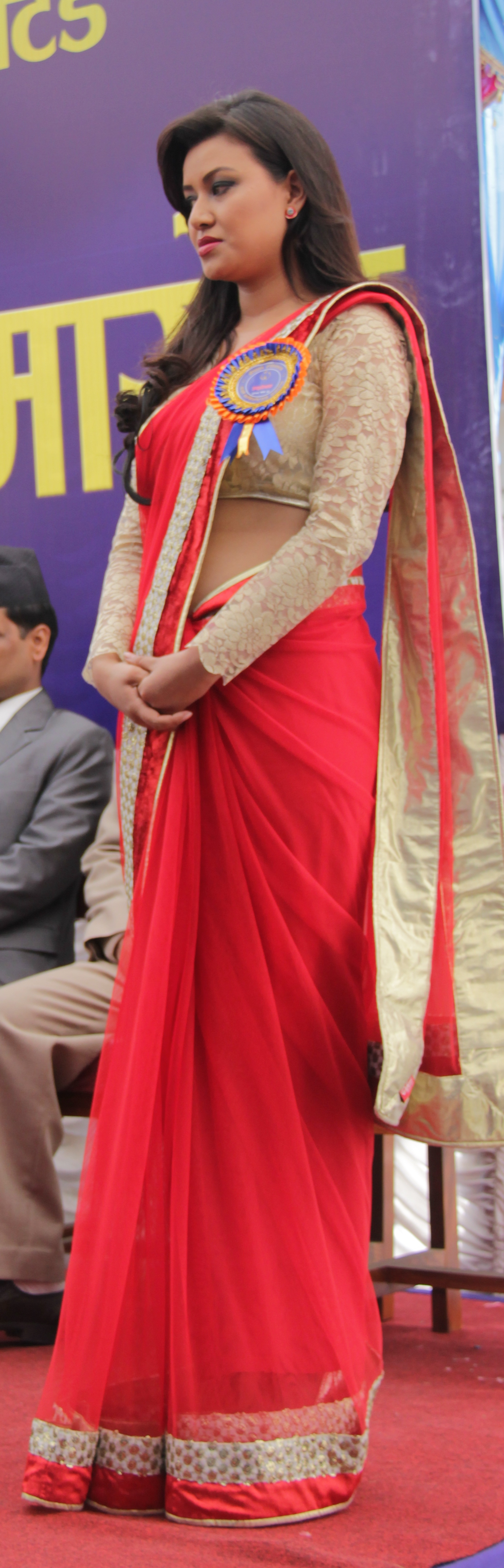 Malina Joshi in 2014